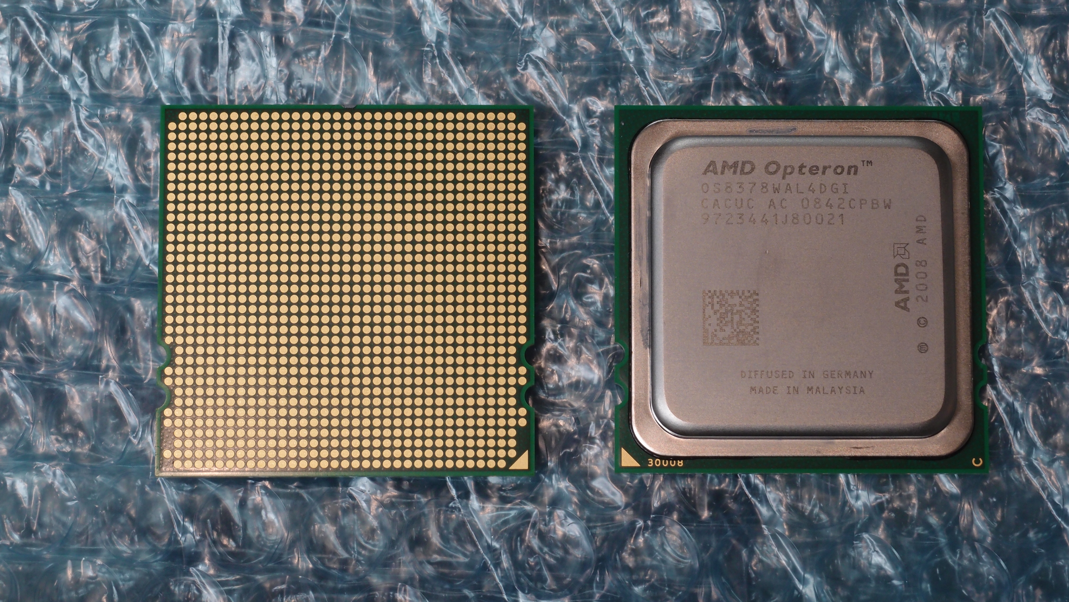 AMD Opteron OS8378WAL4DGI CACUC AC 0842CPBW 9723441J80021 DIFFUSED IN GERMANY MADE IN MALAYSIA